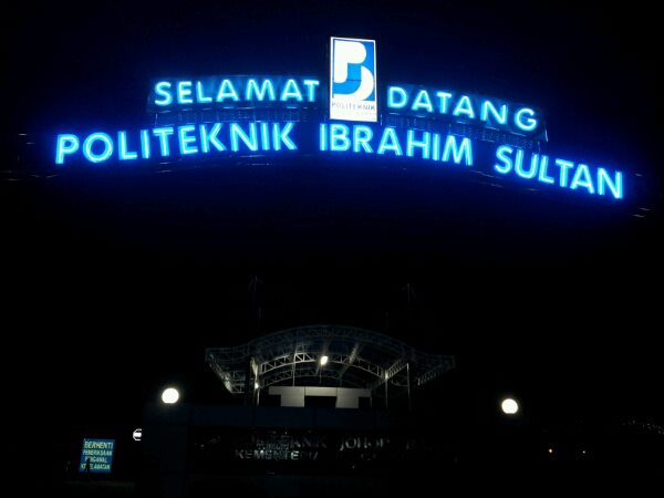 Night scene PIS gate that still uses the original logo PJB